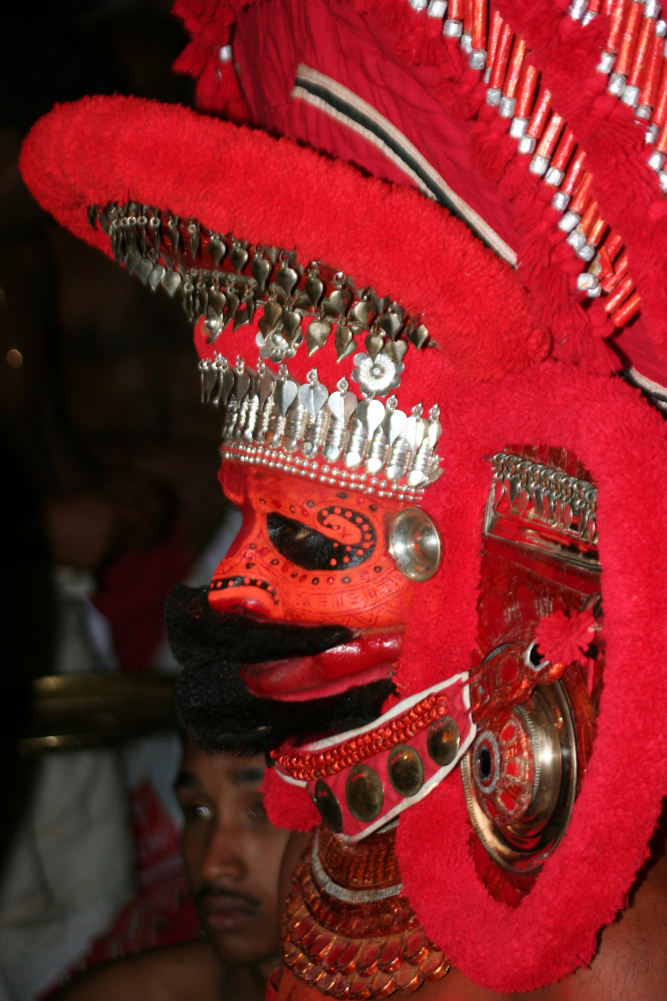 urpazhassi theyyam in kerala